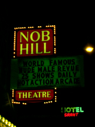 The Nob Hill Theatre, located in Nob Hill, San Francisco, California. I took this image myself for use on Wikipedia. ***It should be noted that Nob Hill Theatre is really located in Lower Nob Hill and is not indicative of the neighborhood or its typical businesses.***